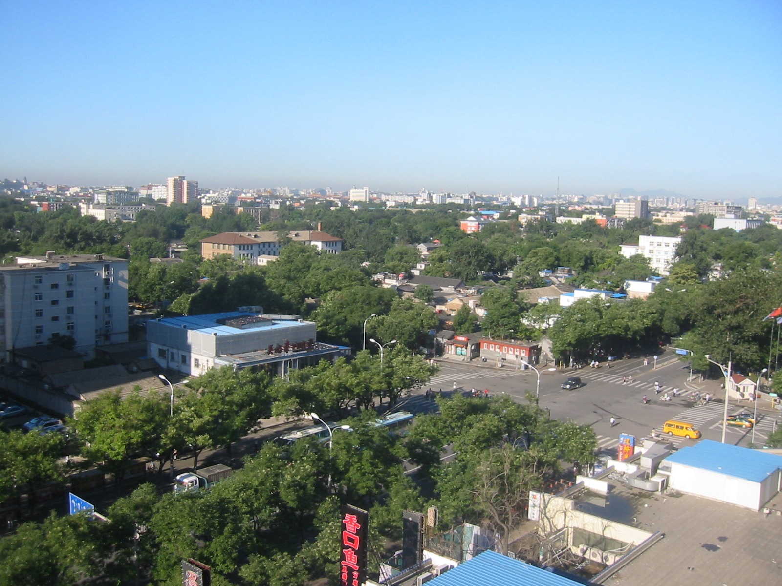 Taken from upper floor at northeastern corner of second ring road, inside Dongzhimen, looking out at the northern central core of Beijing in the summer